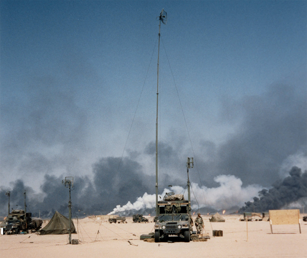 Mobile Subscriber Equipment (MSE) antenna trucks in the Iraqi desert during Operation Desert Storm, photo credit U.S. Army.